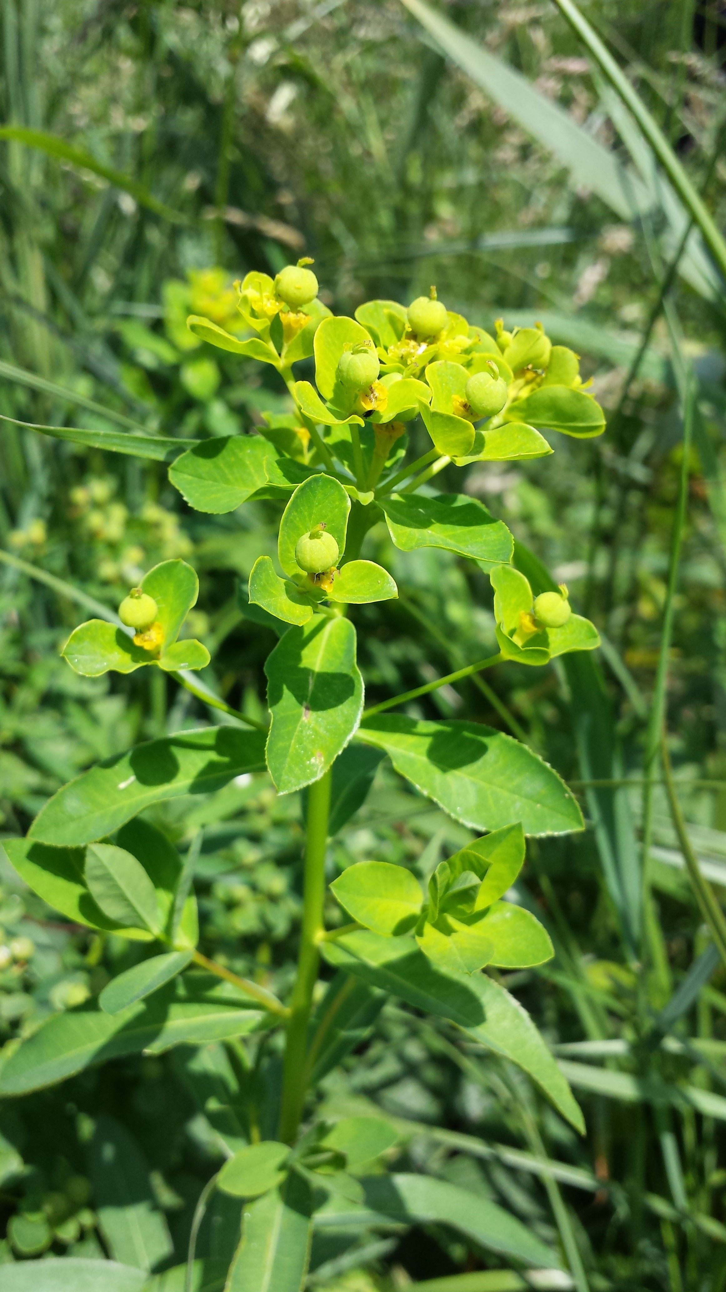 Taxon: Euphorbia villosa (sensu Fischer et al. EfÖLS 2008) Location: Old river bed of Fischa, Gramatneusiedl/Ebergassing, district Wien-Umgebung, Lower Austria - ca. 175 m a.s.l. Habitat: wet meadow